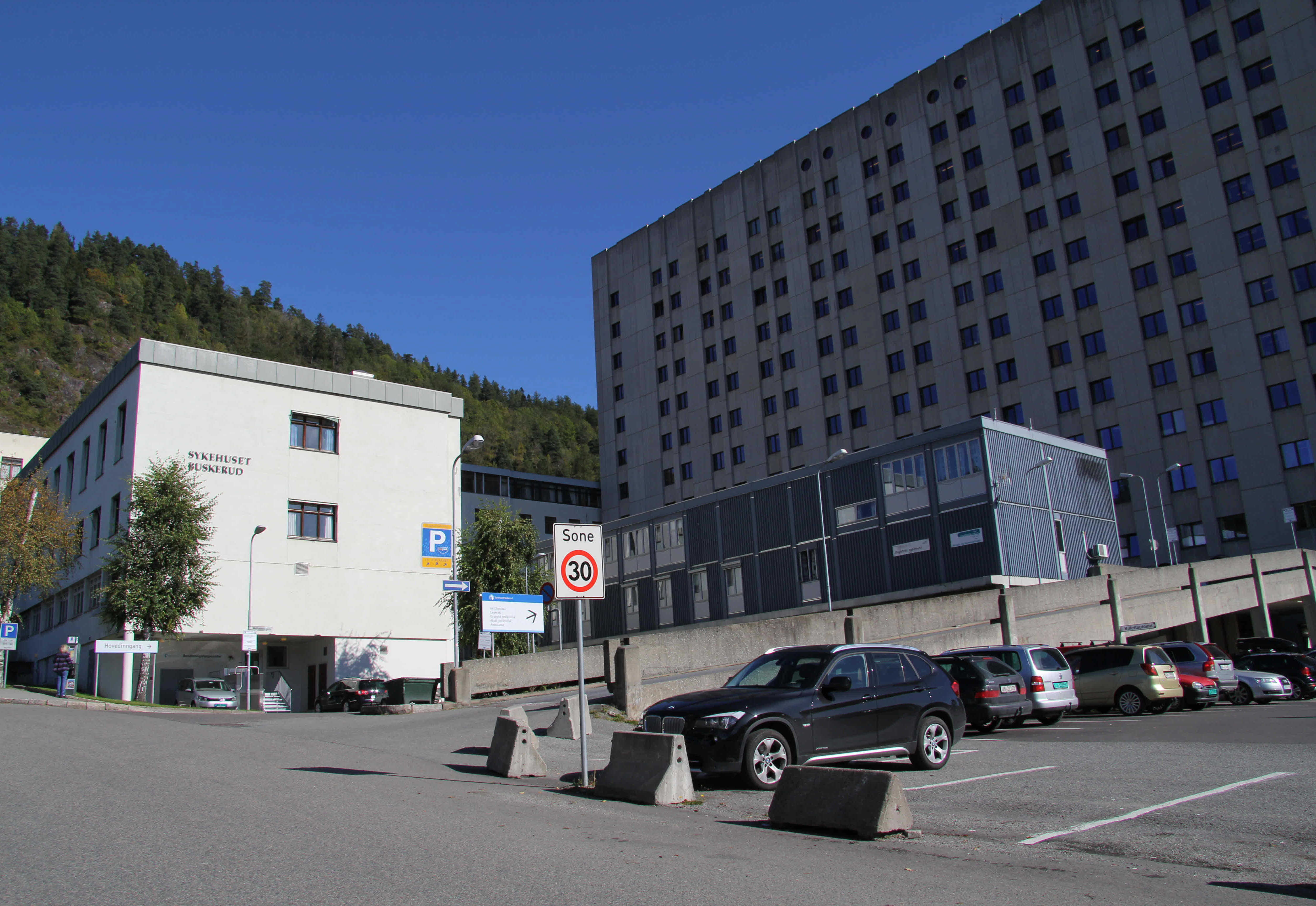 Main entrance of Drammen Hospital, Drammen, Norway